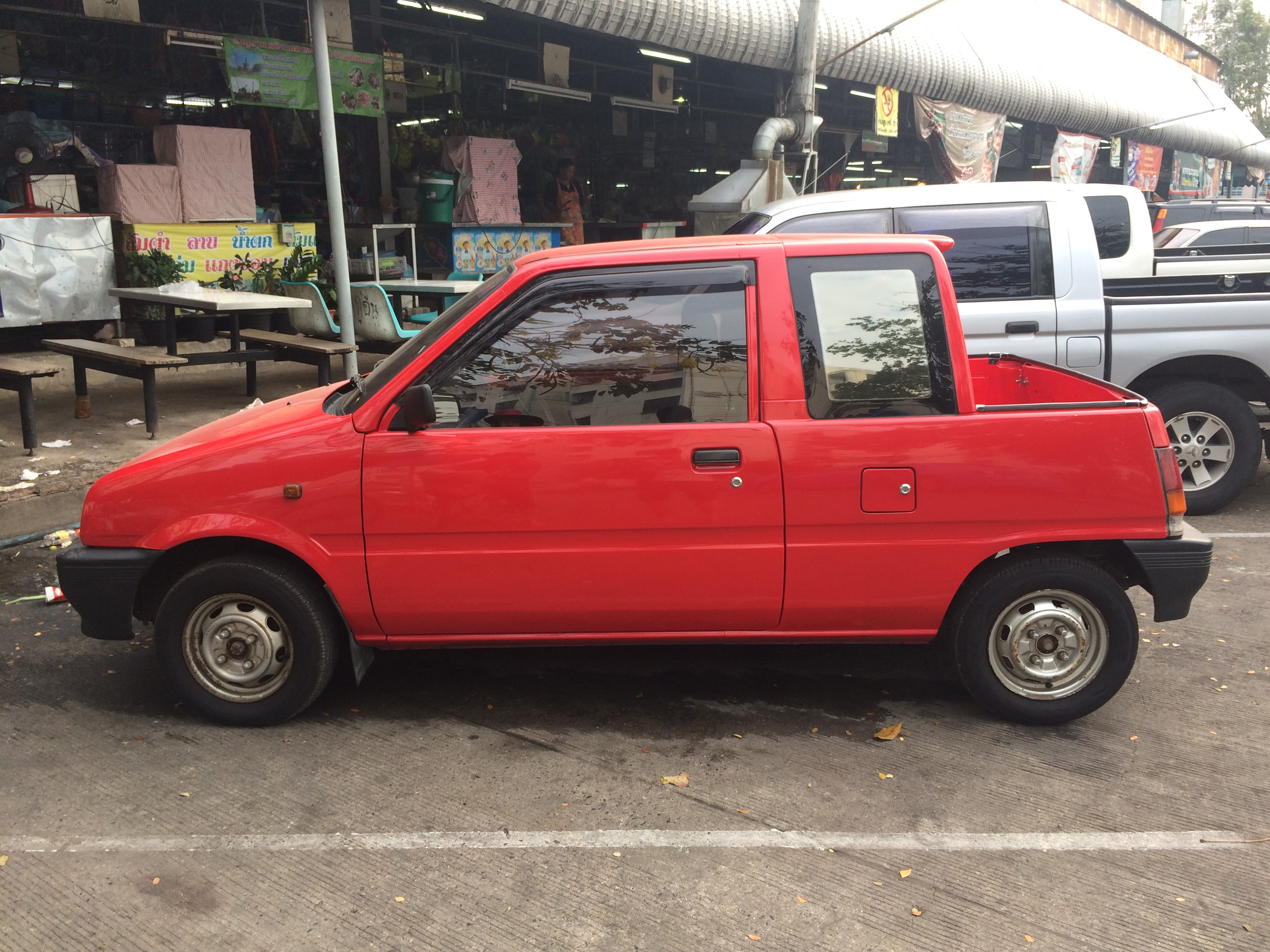 1989-1990 Daihatsu Mira (L70) pickups (24-02-2018) in Bangkhen Bangkok Thailand.